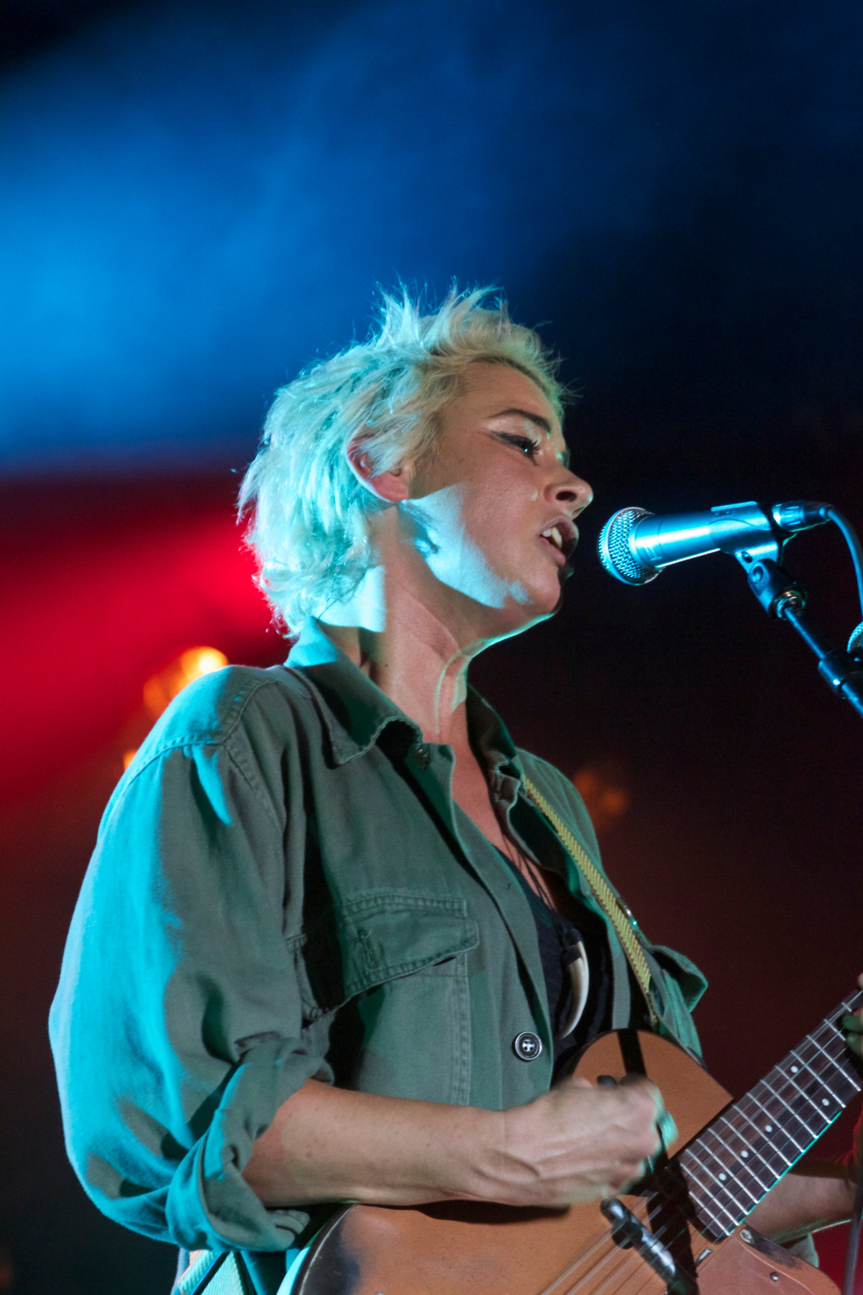 Cat Power @ Große Freiheit 36, Hamburg